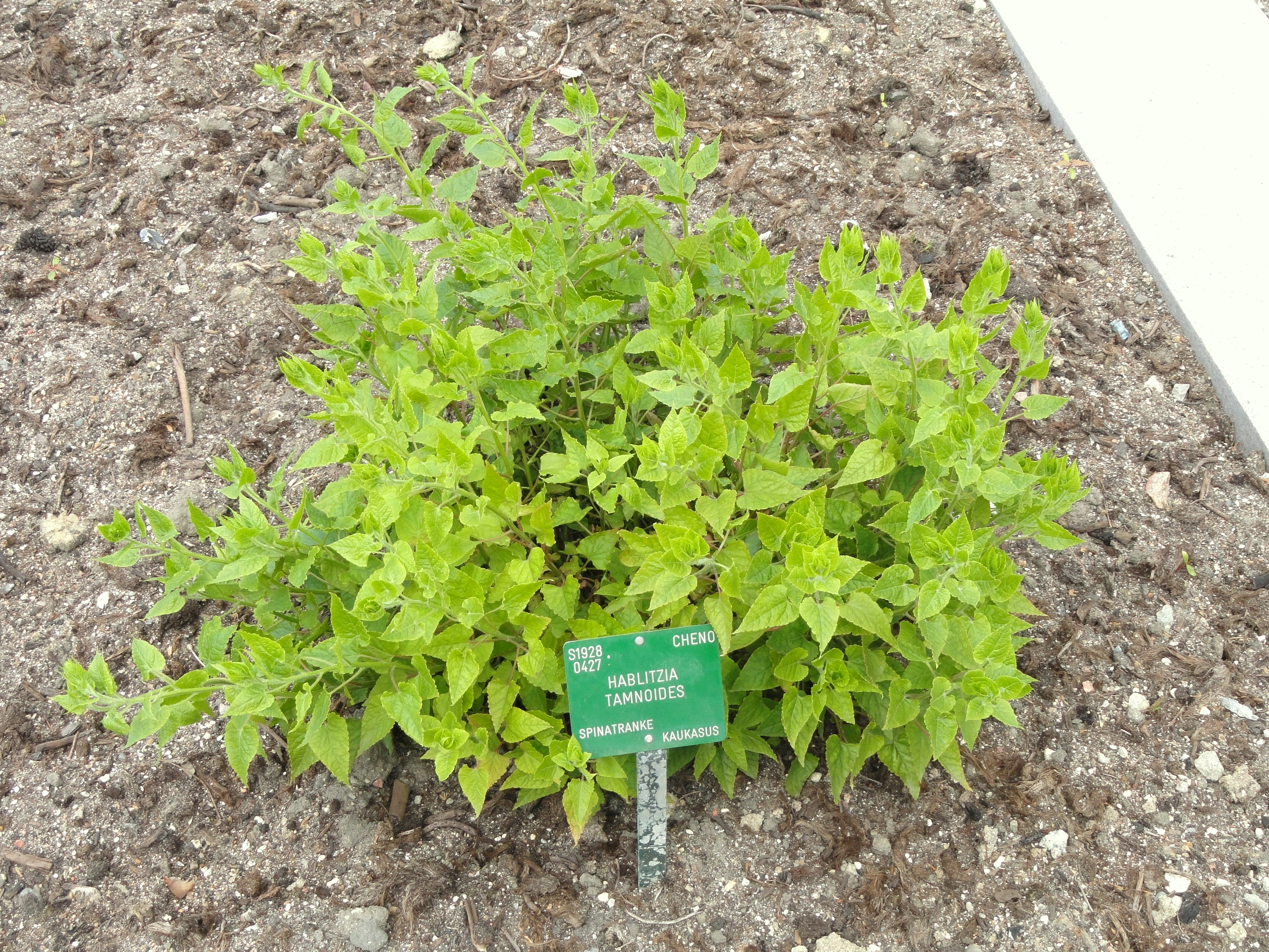 Botanical specimen in the University of Copenhagen Botanical Garden, Copenhagen, Denmark.